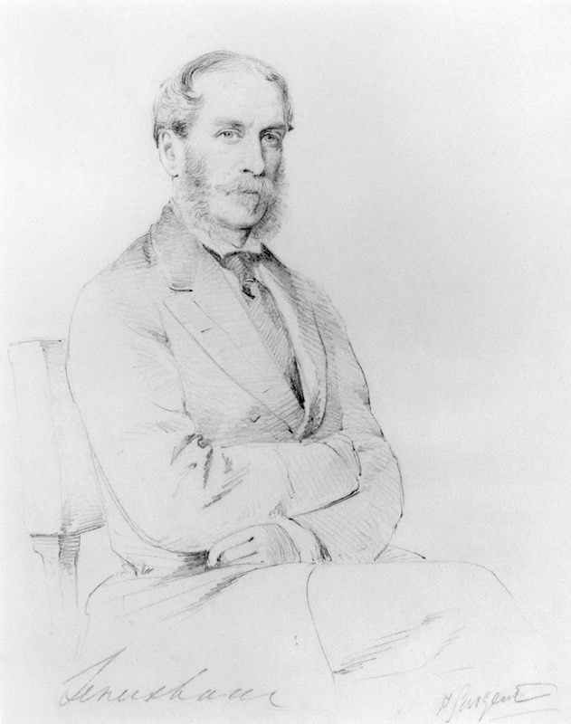 Portrait of William Legge, 6th Earl of Dartmouth